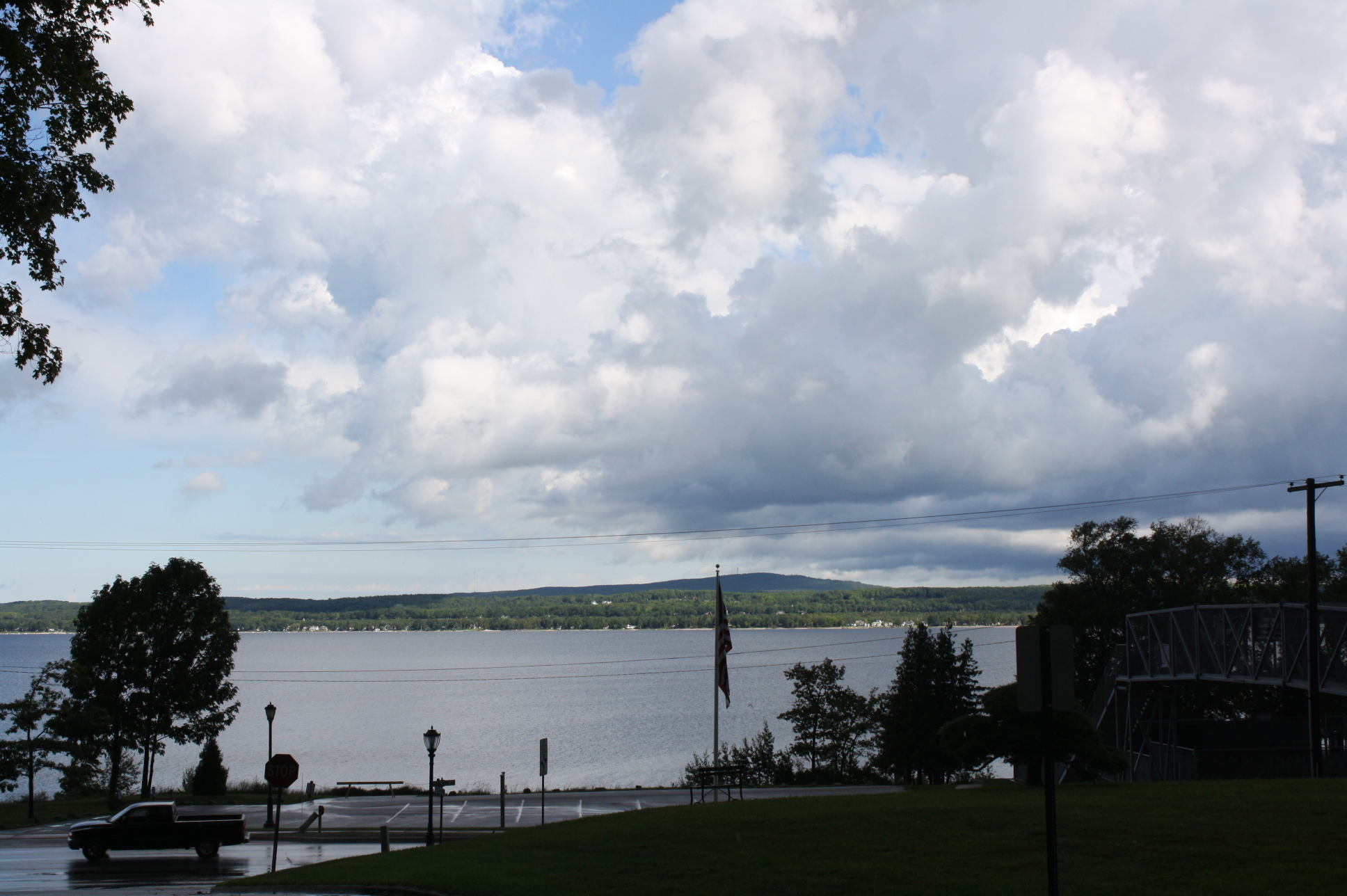 Little Traverse Bay from Bay View, Michigan.